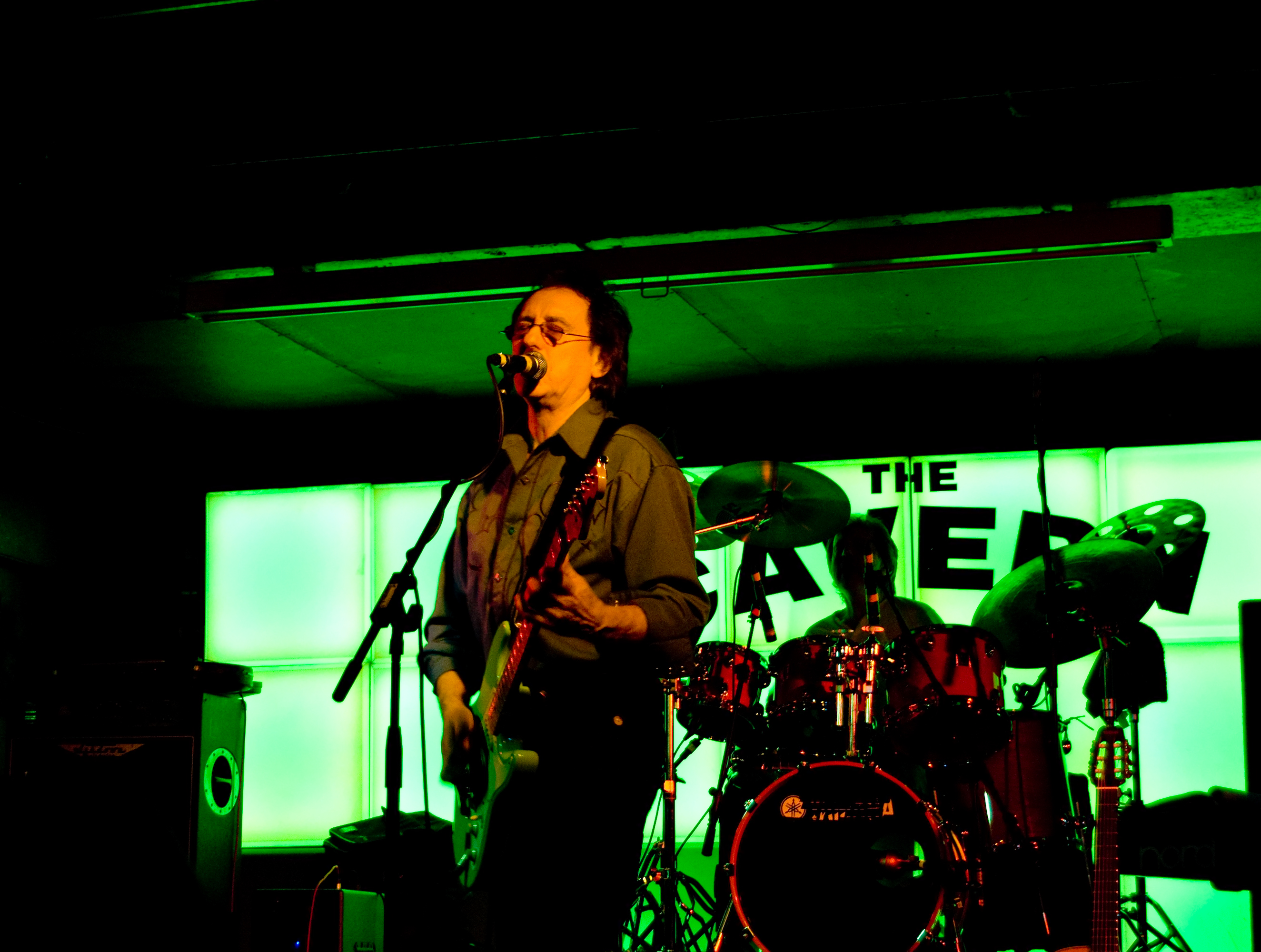 Former Moody Blues and Wings guitarist at The Cavern, Liverpool. Due to be released as a Live CD.